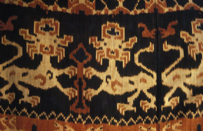 Ikat textile with a Dutch lion motif